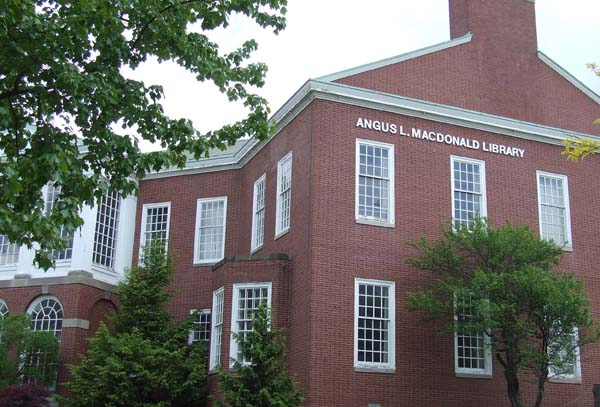 Bwark took this photo on June 21,2008. It is a photo of the Angus L. Macdonald Library at Saint Francis Xavier University in Antigonish, Nova Scotia, Canada.